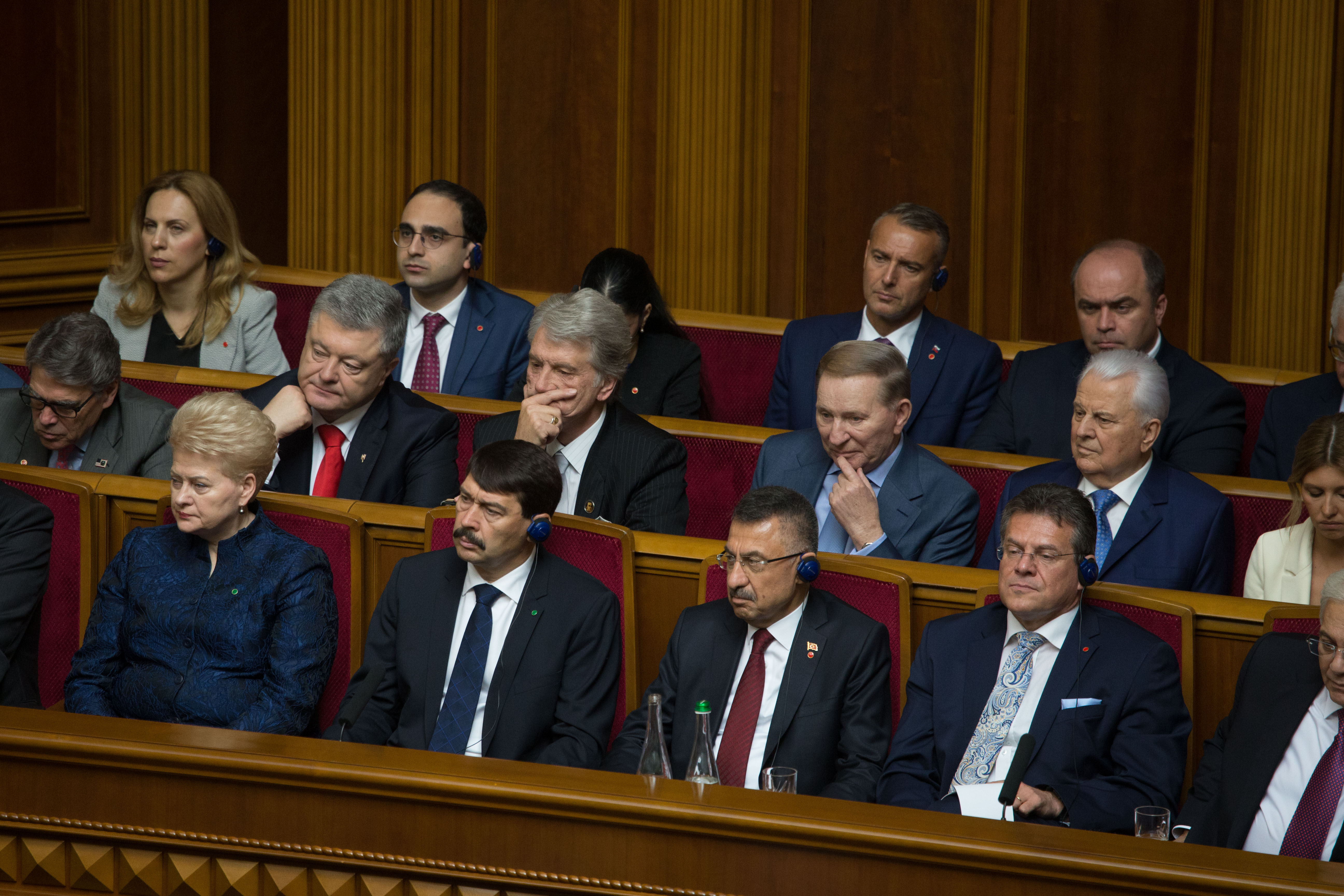 Volodymyr Zelensky presidential inauguration, 20th May 2019